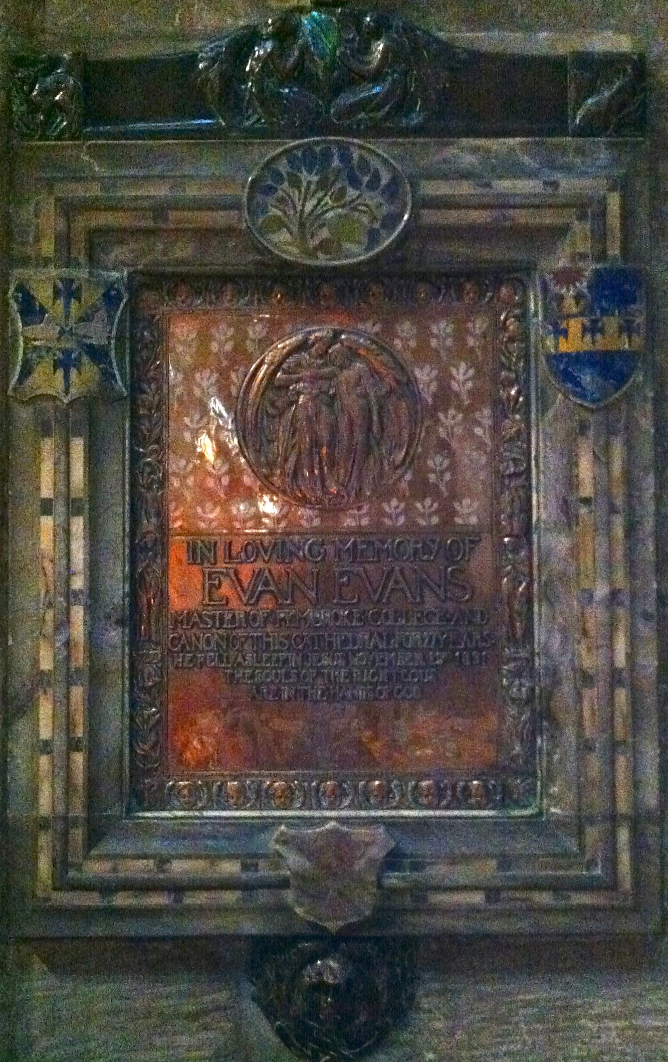 Evan Evans. Master of Pembroke College and Canon of this Cathedral Forty Years.